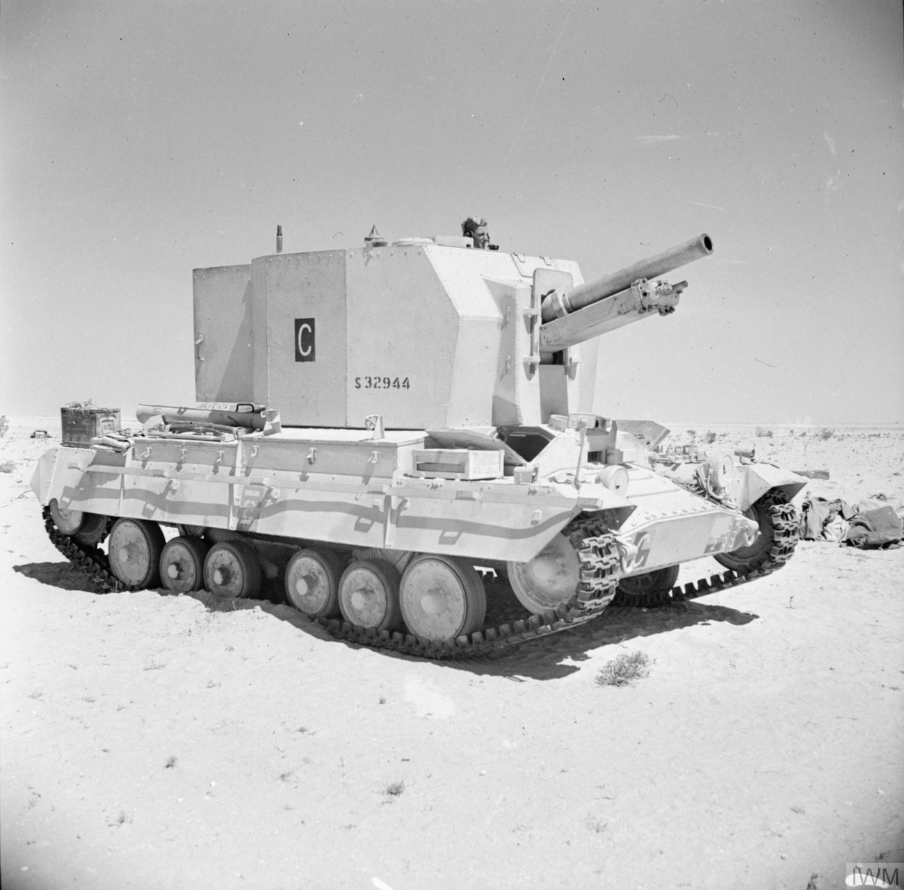 Photograph of a Bishop 25-pounder self-propelled gun in the Western Desert.